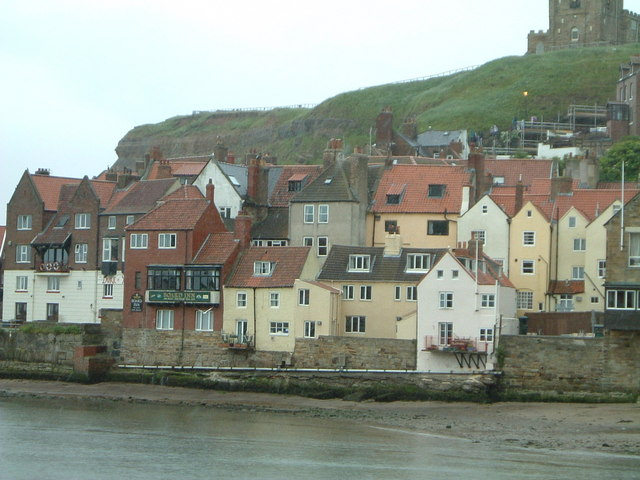 Whitby Old Town Whitby old town with Abbey at the top of the hill